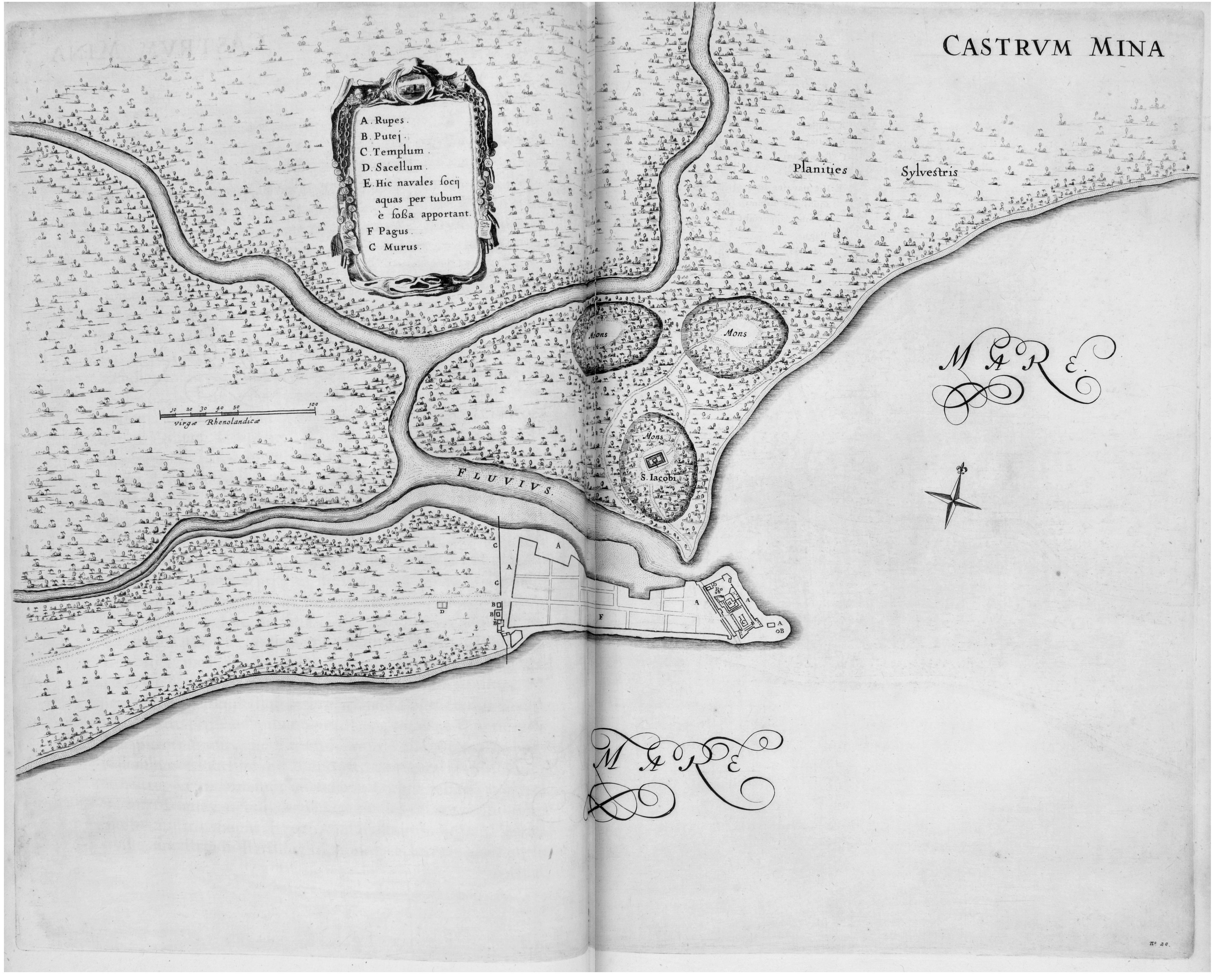 "Castrvm Mina"; map of Elmina in 1647